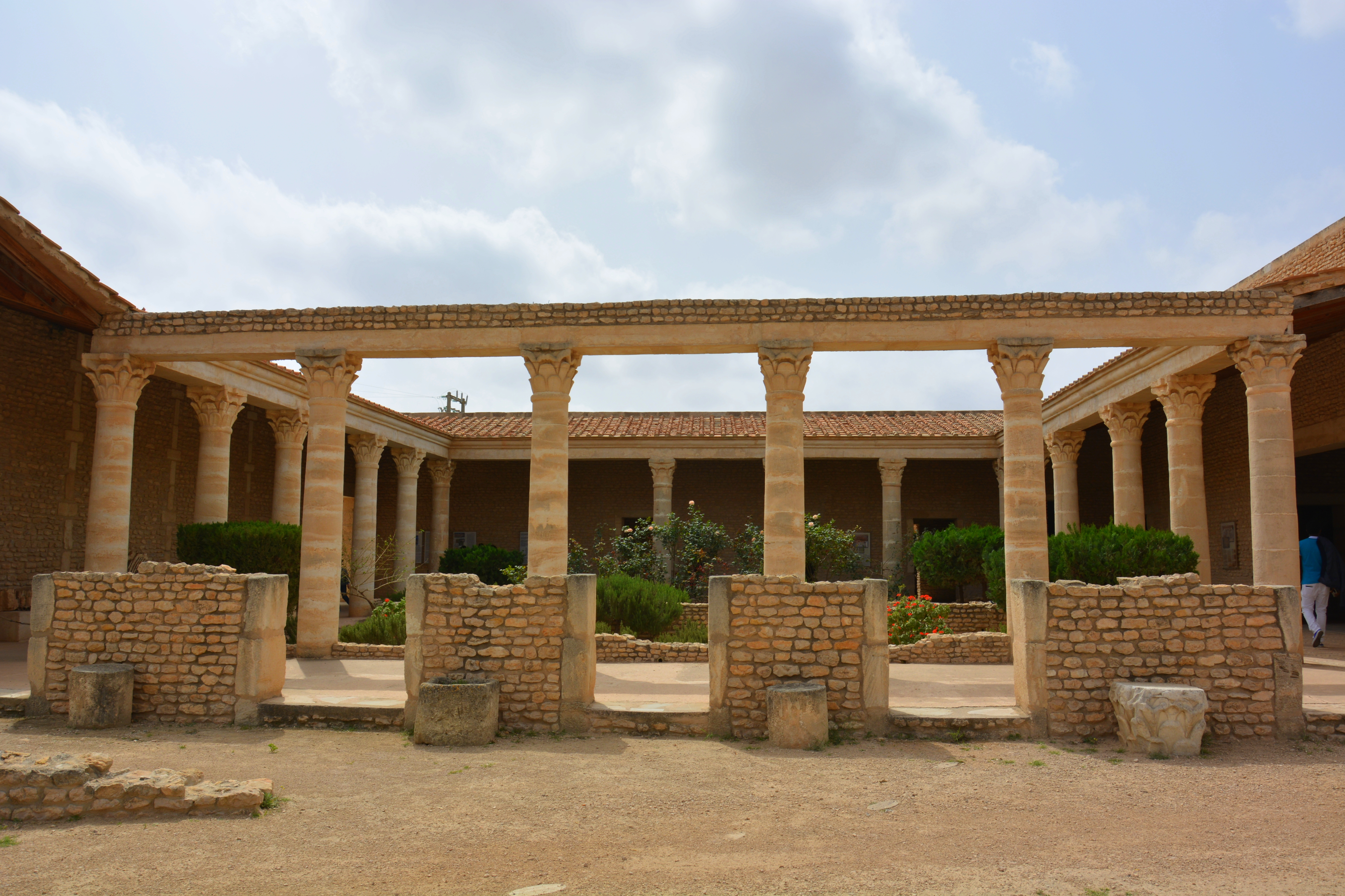 Villa Africa